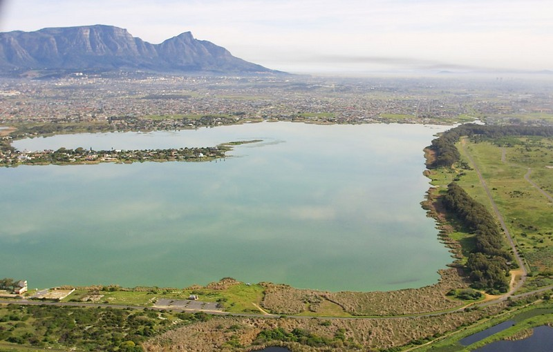 Zeekoevlei Nature Reserve viewed from the air. Cape Town. The back of Table Mountain is visible in the background.